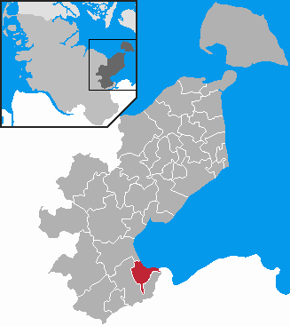 This map shows the area of the Gemeinde (municipality) Timmendorfer Strand in the Kreis (district) Ostholstein, Schleswig-Holstein, Germany.